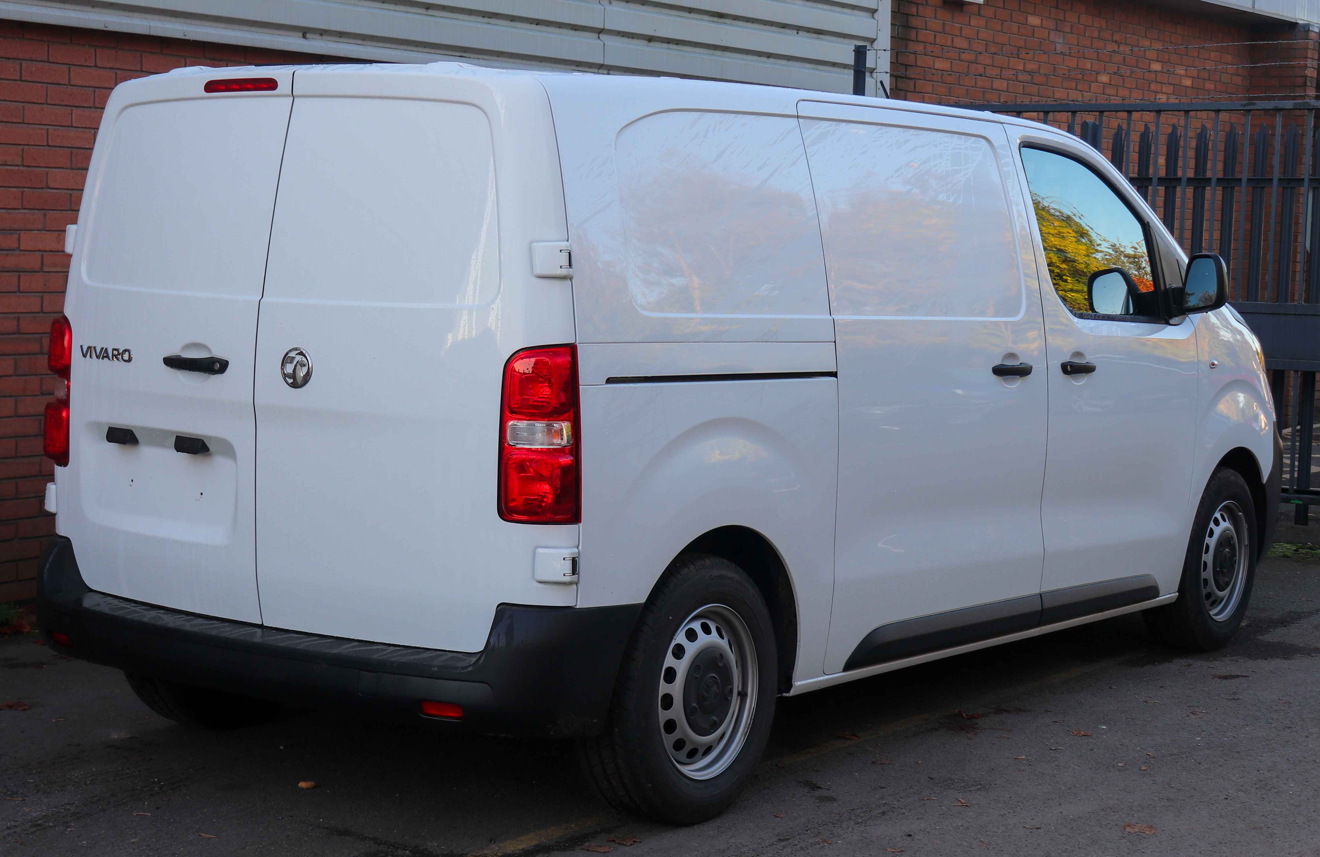 2019 Vauxhall Vivaro 2700 Edition 1.5 Rear Taken in Leamington Spa